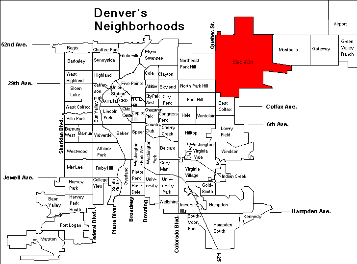 Cropped version of original (removed white space) by user:Vertigo700. Contents 1 Licensing 2 History of File:Stapletonhlight-new.jpg 3 Licensing 4 Original upload log Licensing History of File:Stapletonhlight-new.jpg 2009-01-01T07:34:18Z Jmchuff (Talk | contribs) (155 bytes) (Added template) 2008-07-13T00:38:07Z Duncan1800 (Talk | contribs) (143 bytes) (Cropped version of :en:image:Stapletonhlight.png|original (removed white space) by :en:user:Vertigo700| .) 2008-07-13T00:38:07Z Duncan1800 (Talk | contribs) (728x540) (115941 bytes)